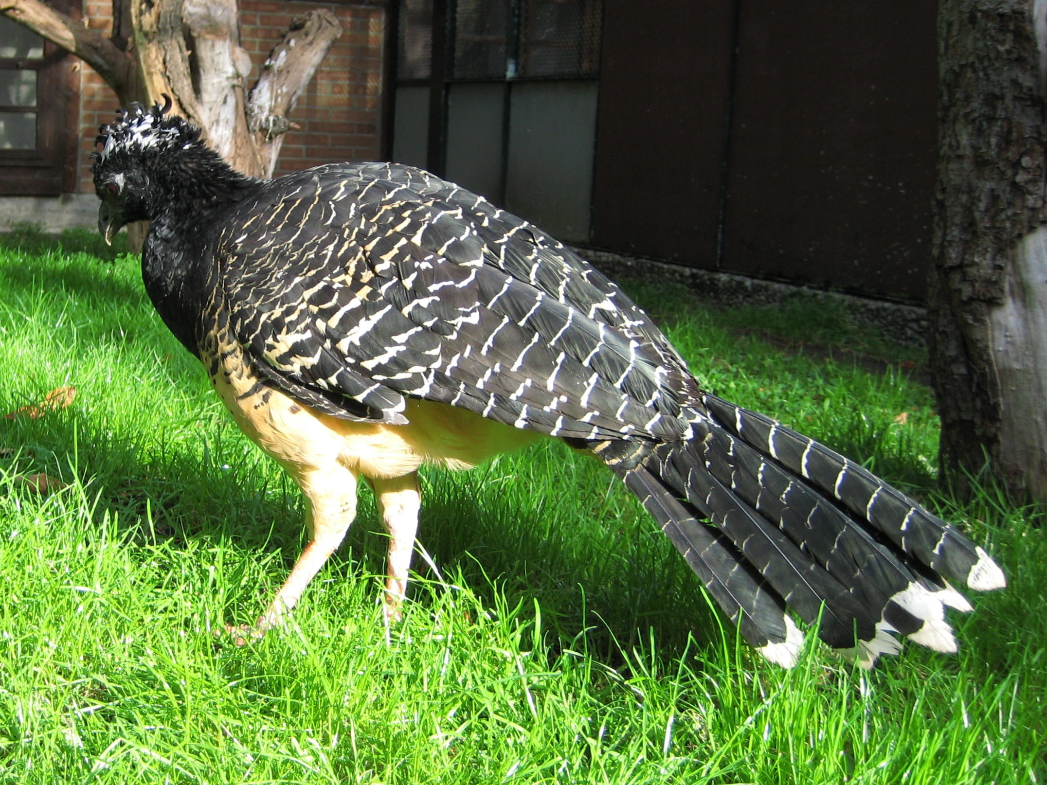 Bare-faced Curassow at the Berlin Zoological Garden, Germany.